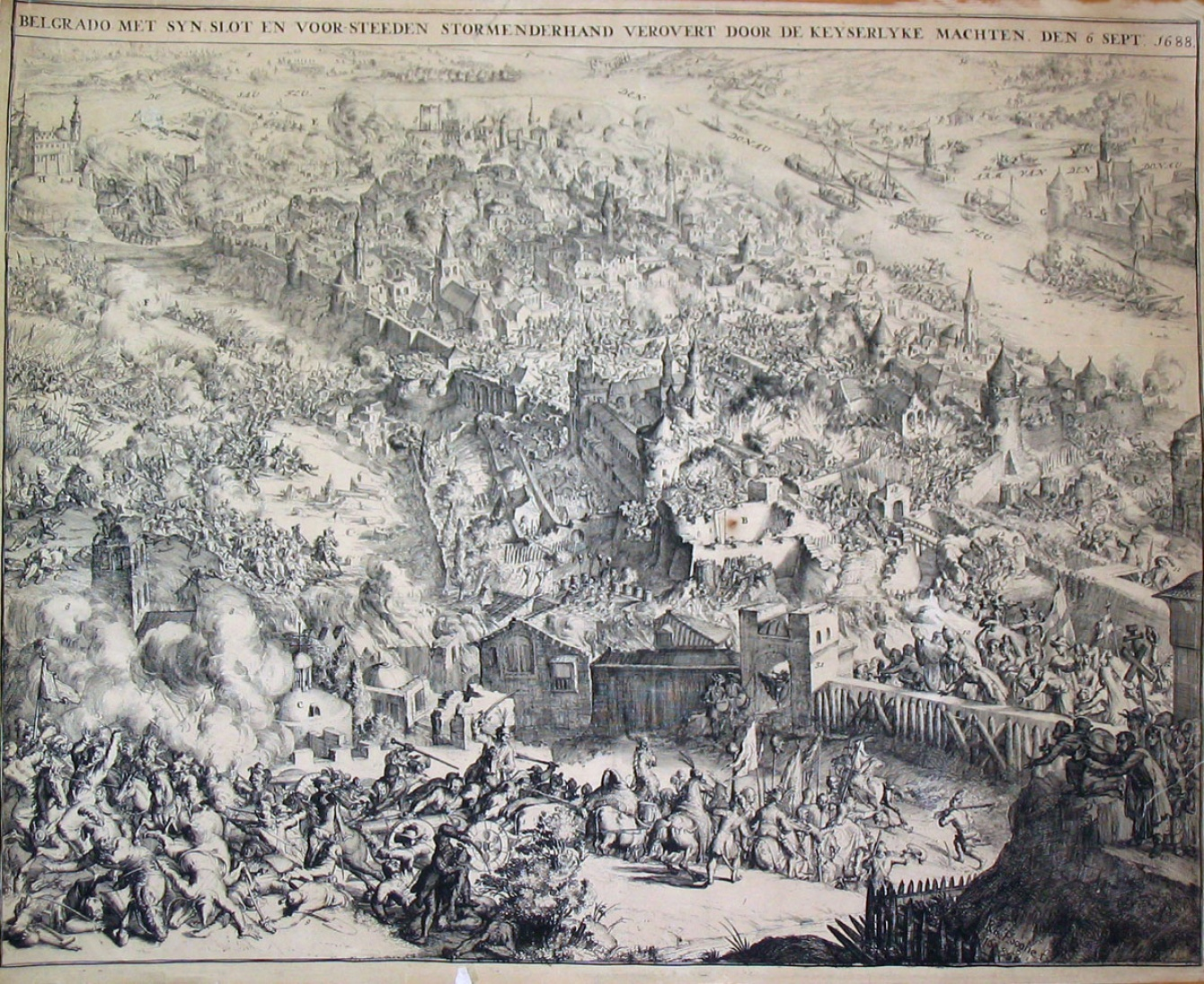 Charge on Belgrade, 6 September 1688